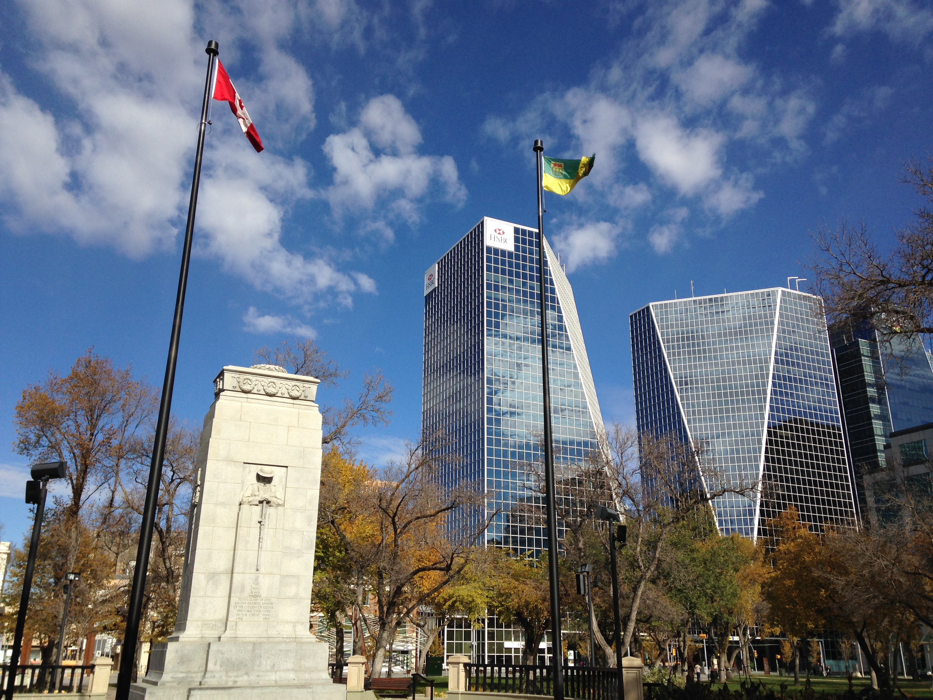 Victoria Park, Regina, Saskatchewan, looking north-east